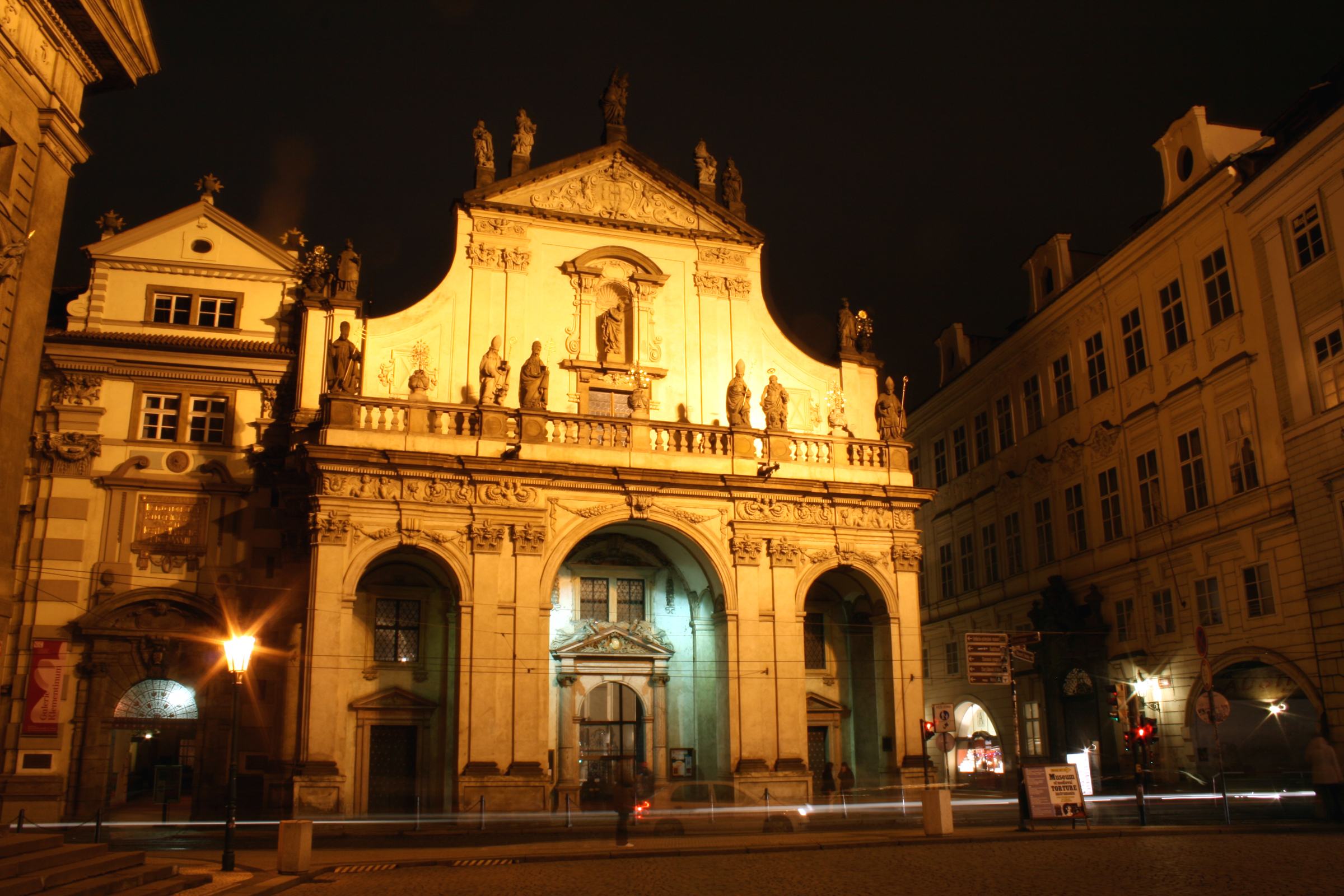 East entrance to the Clementinum, Prague, Czech Republic